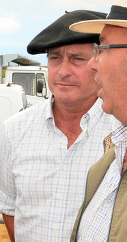 Guillermo Besozzi, mayor of Soriano.